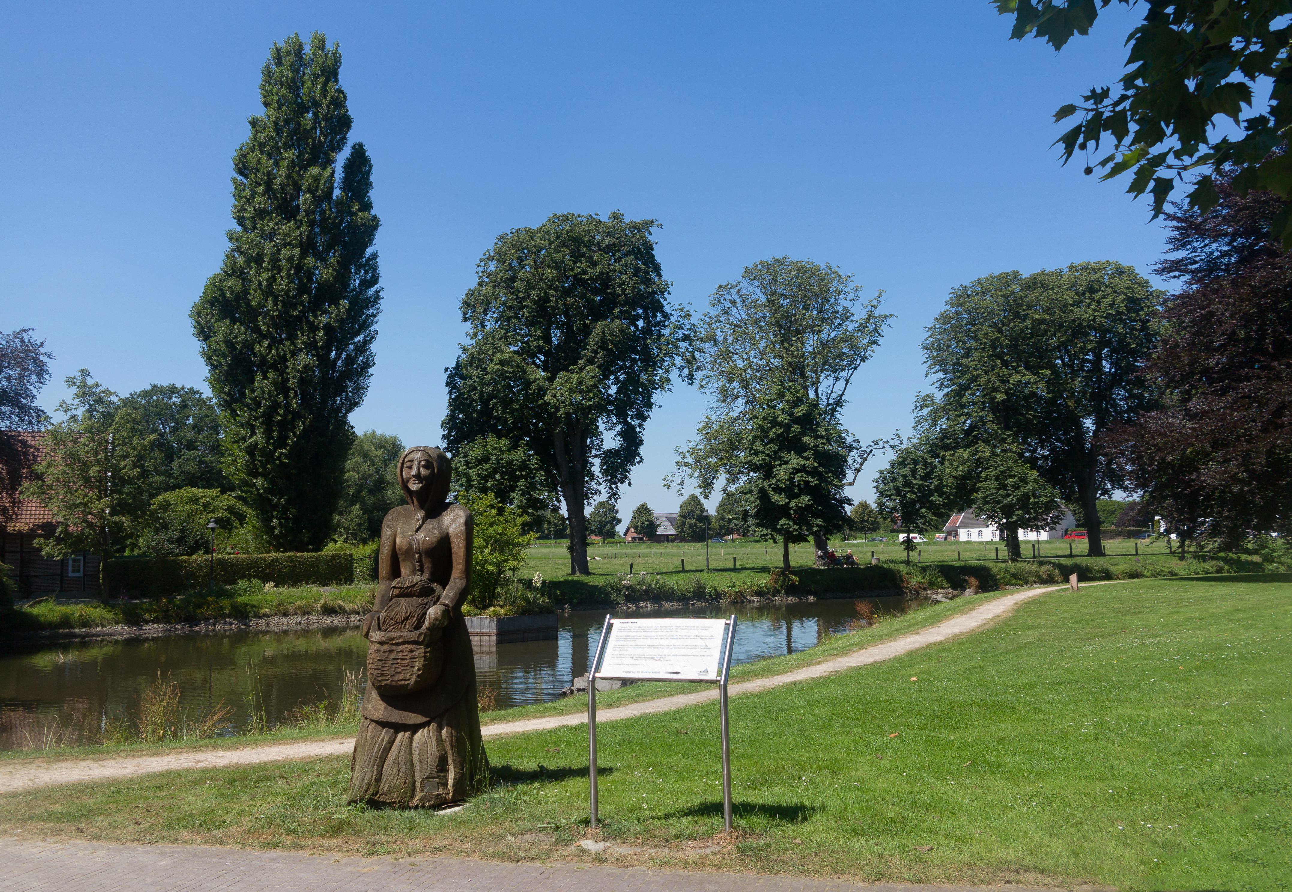 Raesfeld, sculpture Kappes Anna